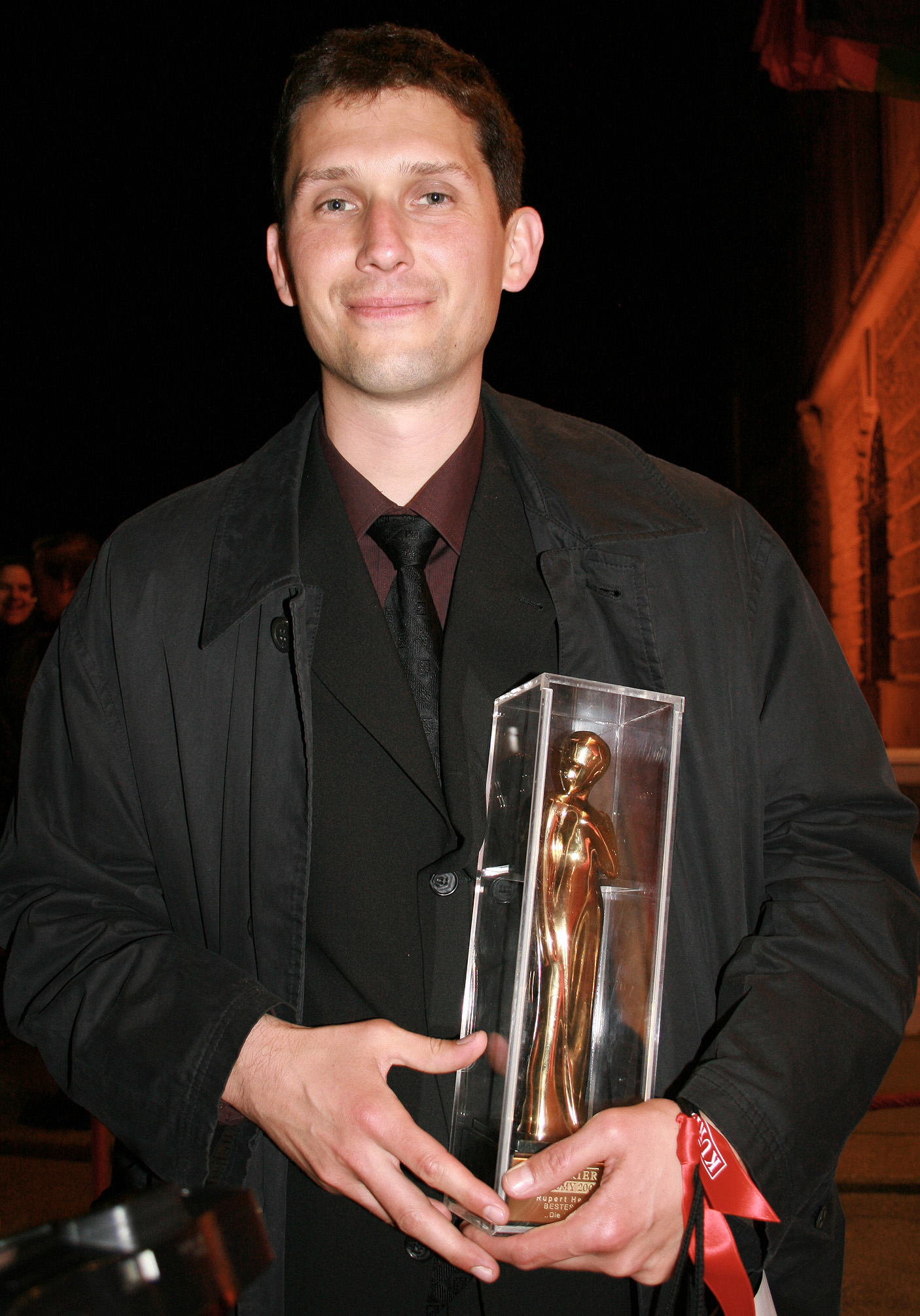 Rupert Henning, awarded for Best Script, at the Romy TV awards (Hofburg Imperial Palace in Vienna)